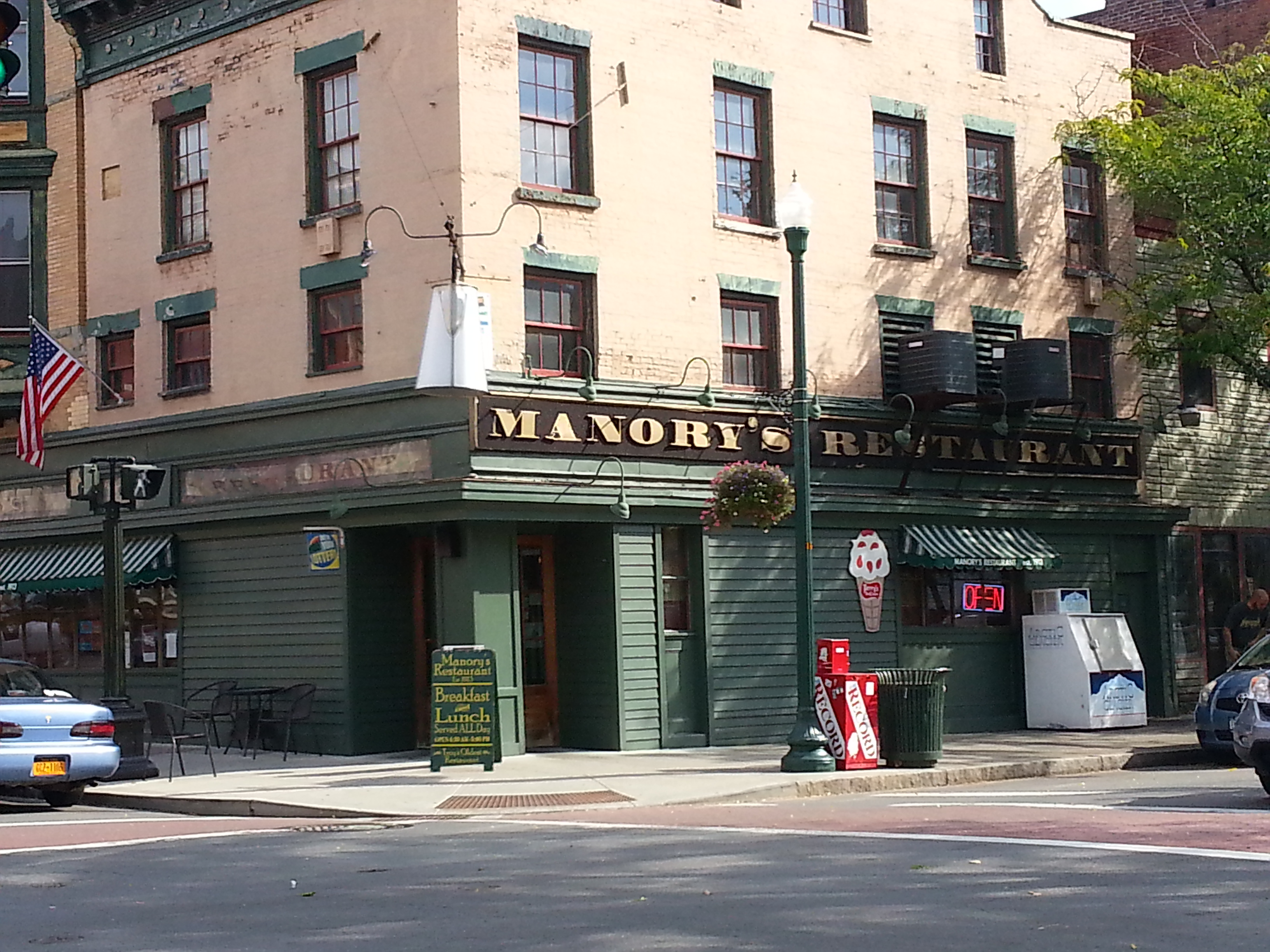 Manory's Restaurant from a street view.